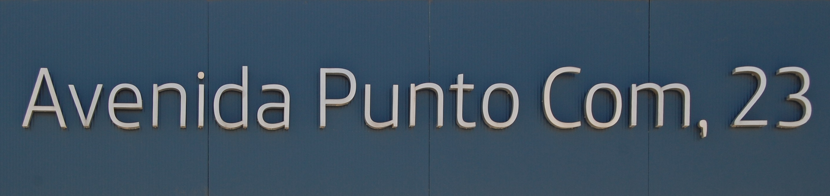 Street sign dedicated to domain name .com, in Alcalá de Henares (Community of Madrid - Spain).